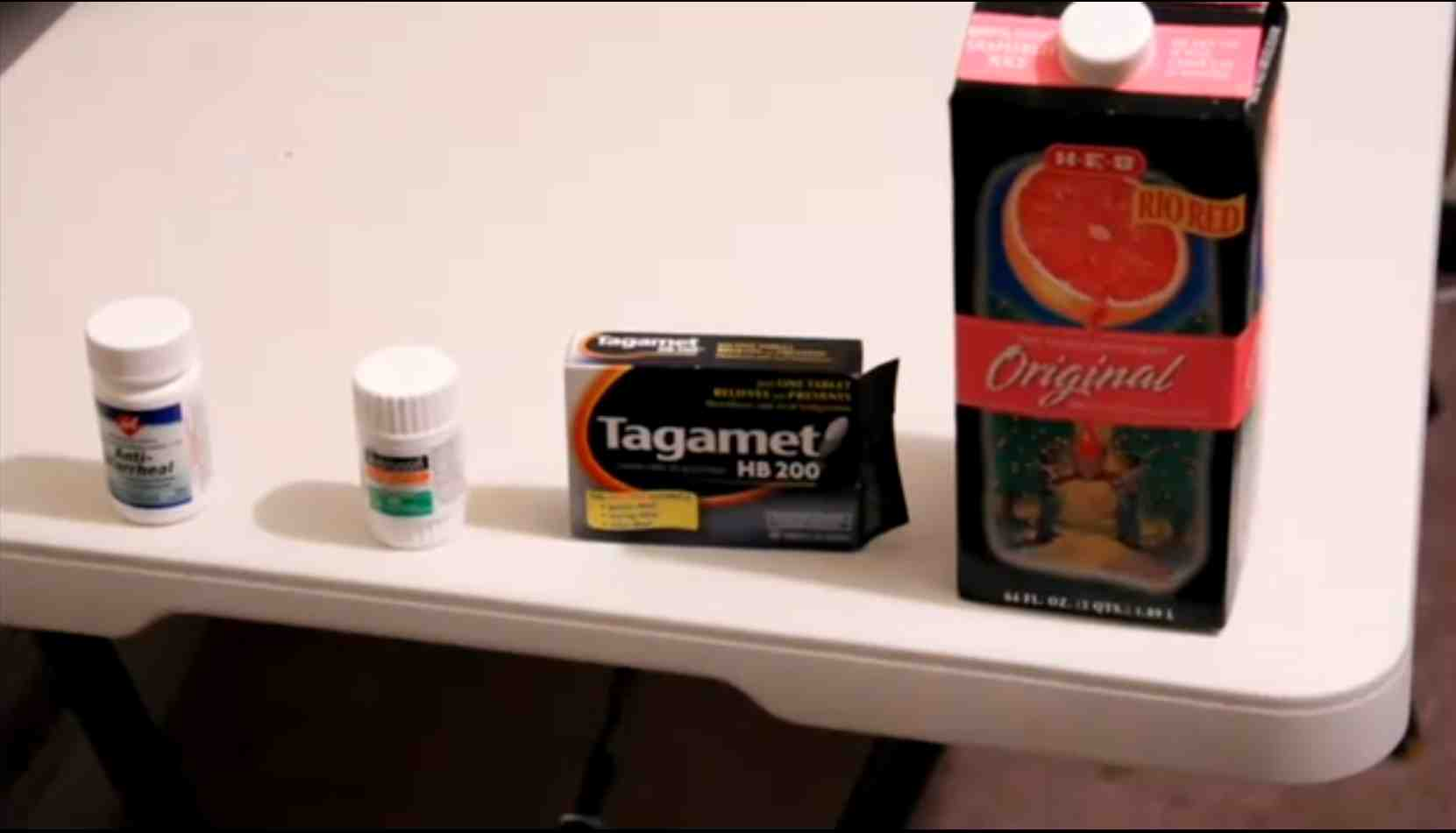 Part 2 of a video of a man describing how to stop opiate withdrawals with Over-the-Counter medications.